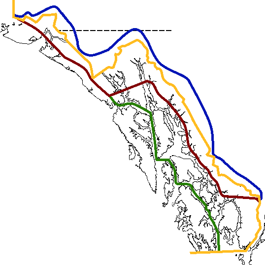 Blue is the border as was claimed by the United States, red is the border as was claimed by Canada and the United Kingdom. The Canadian province of British Columbia claimed a greater area, shown in green. Yellow shows the current border, after arbitration in 1903.